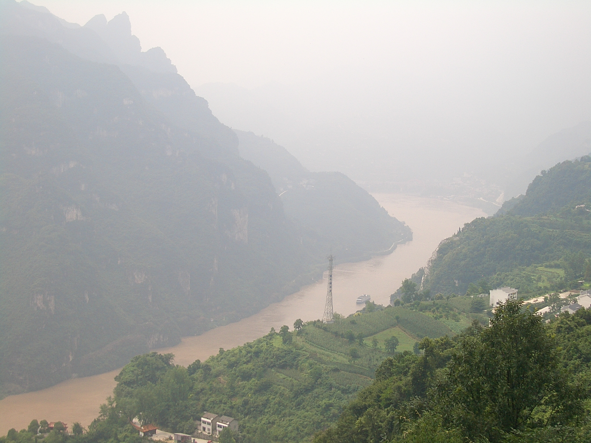 The Chang Jiang (Yangtze River) seen through the fog (as usual). From Hubei route S334 (Yiling District, between Yichang and Sandouping).